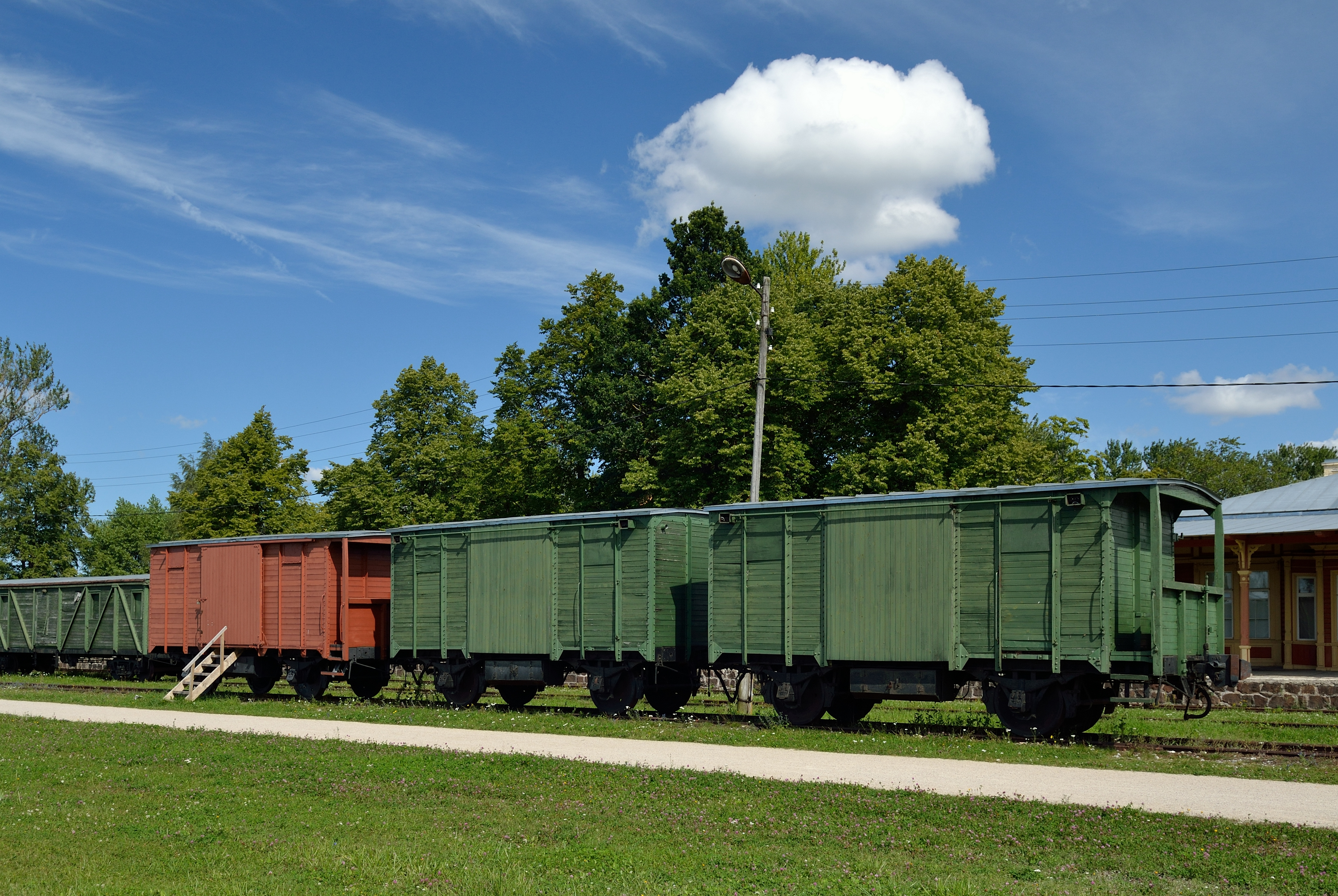 Standard two-axes freight carriages of Russian Imperial State from the end of 19. century